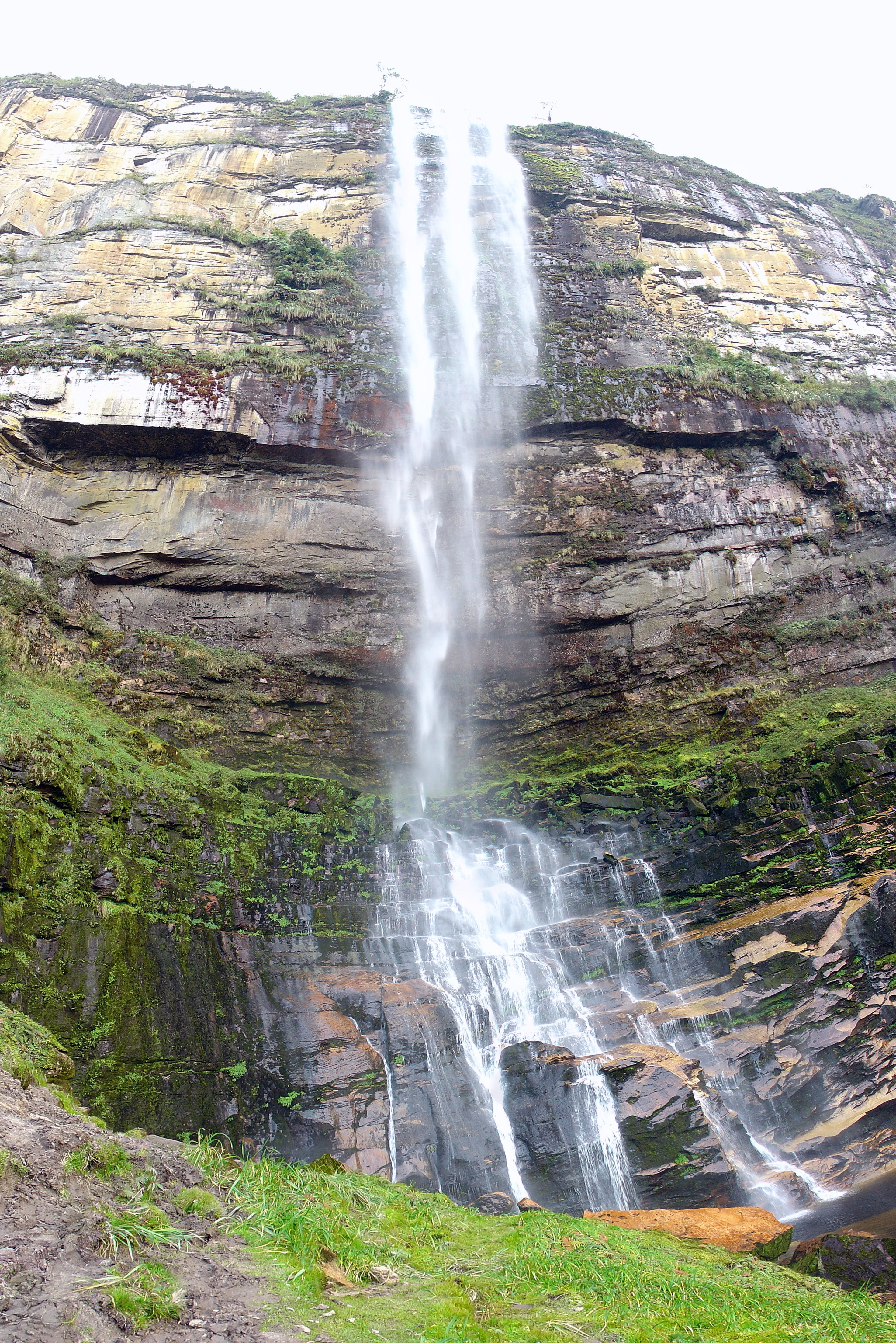 Upper part of the Gocta waterfalls, Peru